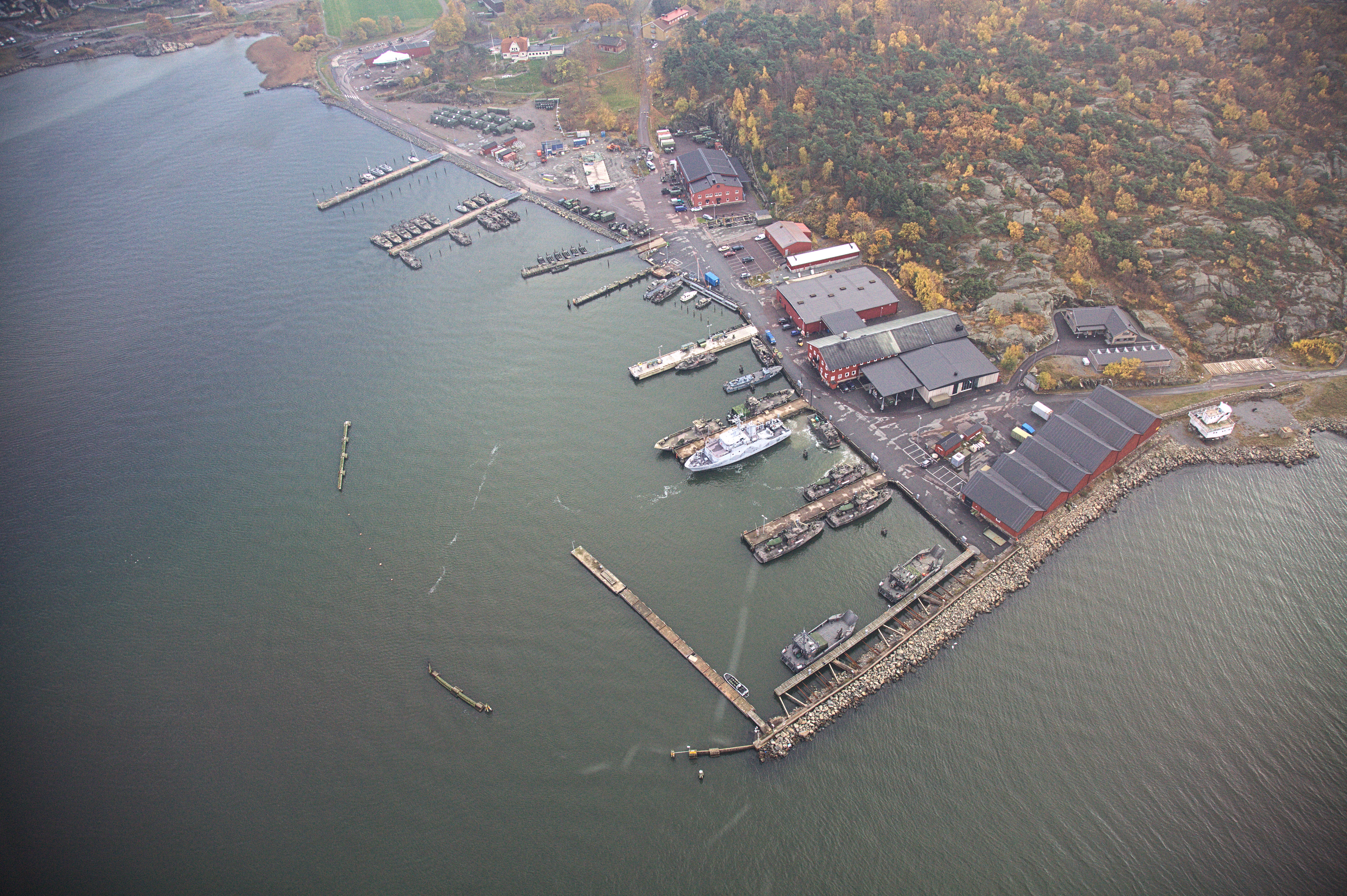 Photo taken on a helicopter over Gothenburg